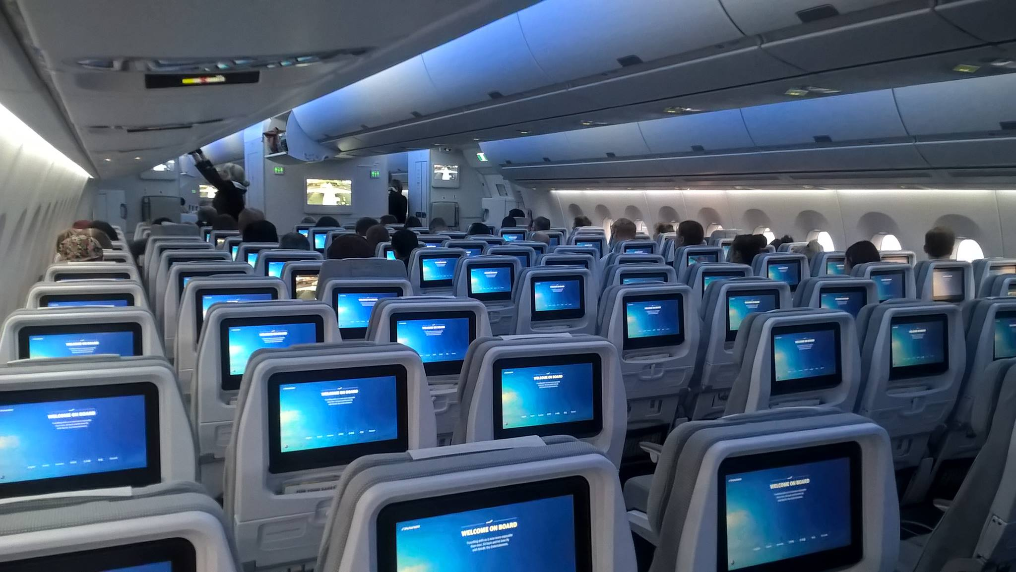 Economy class cabin in Finnair's A350 XWB. This particular aircraft is the first of its type to enter service in Europe.